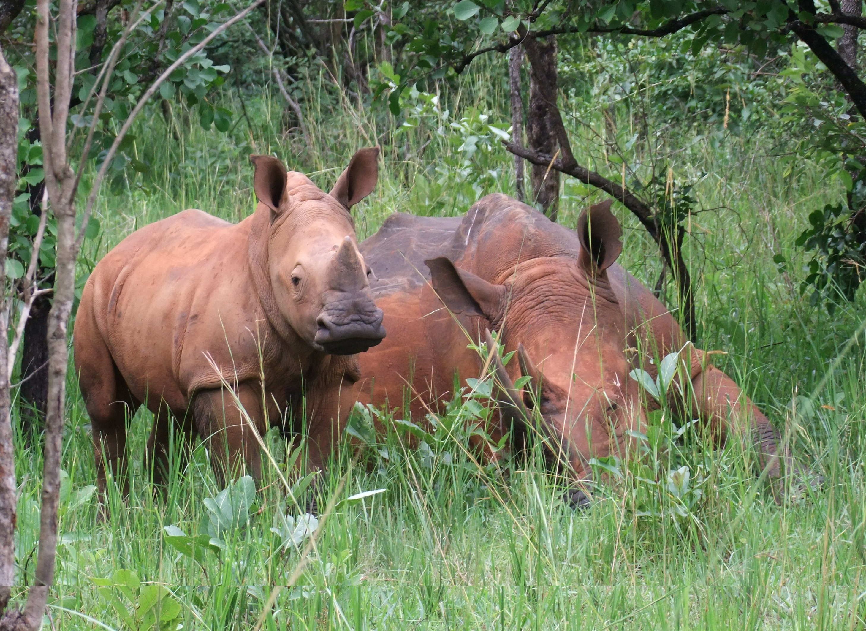 Dona and Bella at the Ziwa Rhino Sanctuary, Uganda